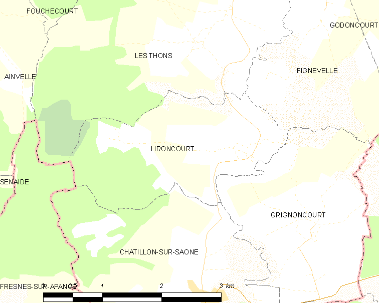 Map of French municipality Lironcourt